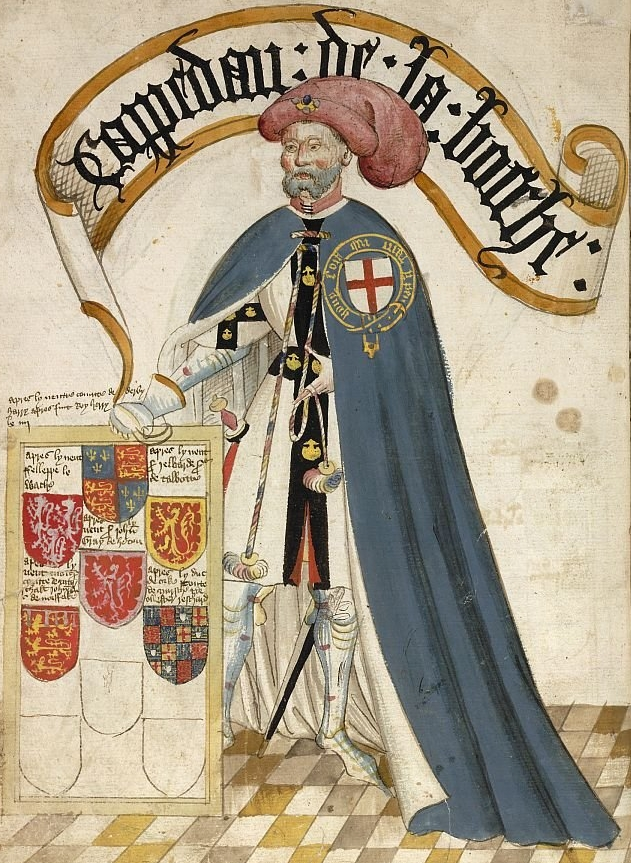 Jean de Grailly, Captal de Buch, KG from the Bruges Garter Book, 1430/1440, BL Stowe 594. On his tabard he displays the arms of de Grailly: Or, on a cross sable five escallops argent